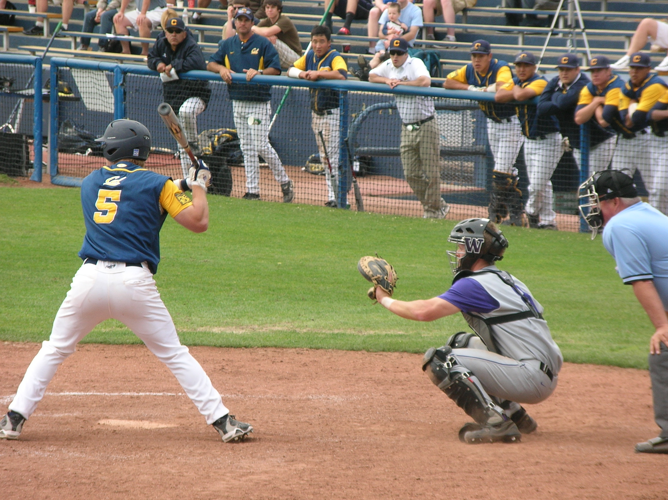 Cal batting during a home baseball game against the Washington Huskies at Evans Diamond. The Bears won 3-2.